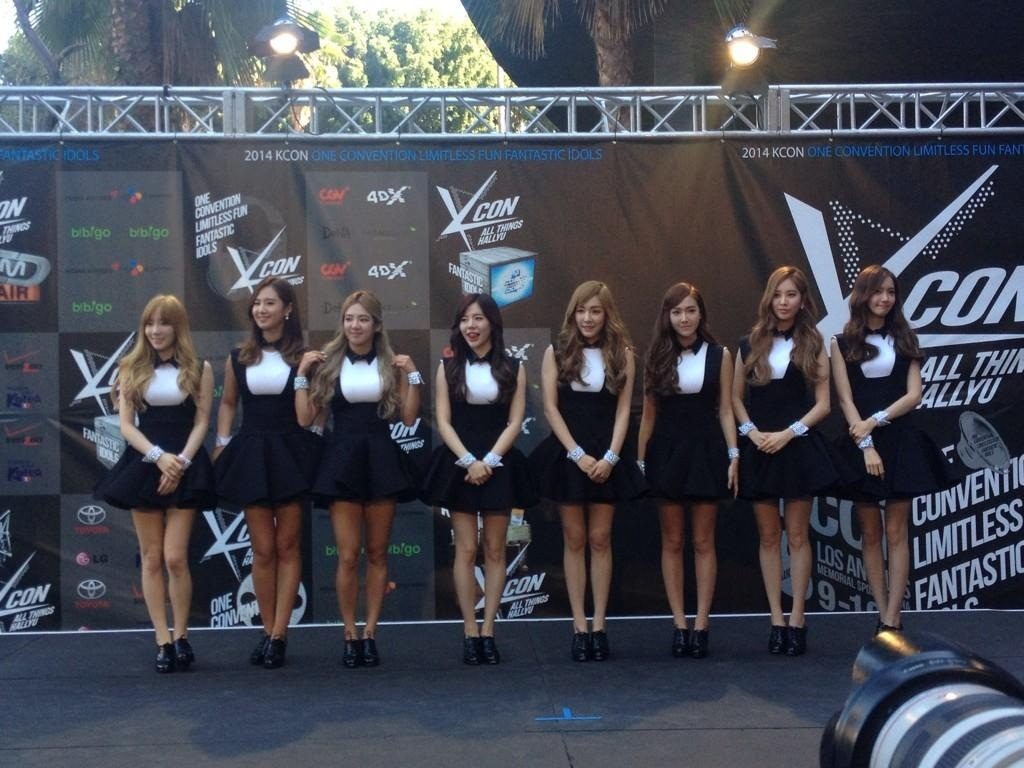 Photograph of KCON music festival 2014 red carpet, Girls' Generation.